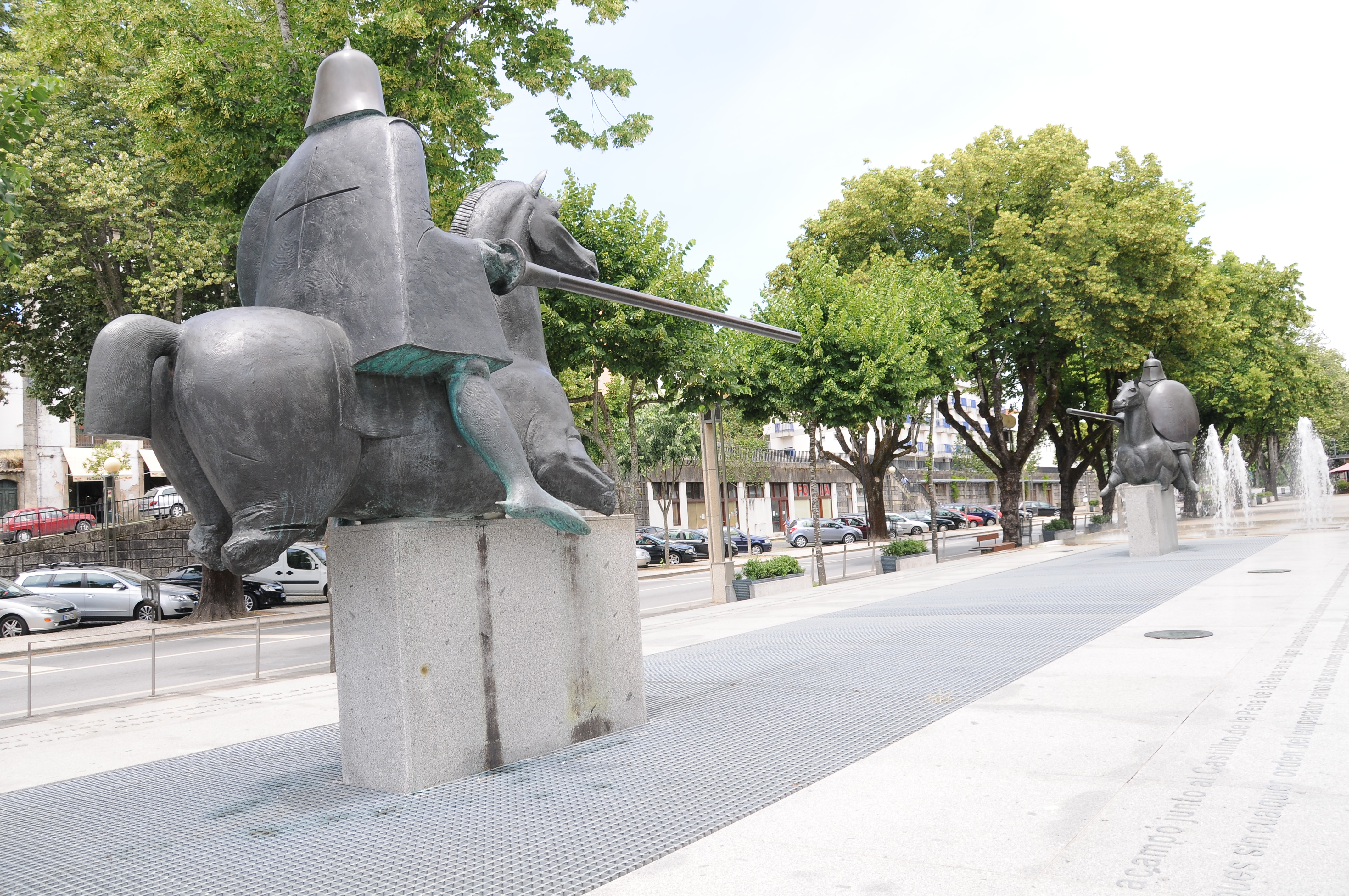 Statues of the Battle of Valdevez in Arcos de Valdevez, Portugal.